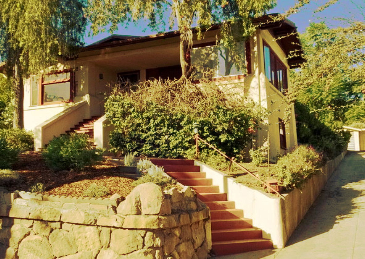 дом в сша